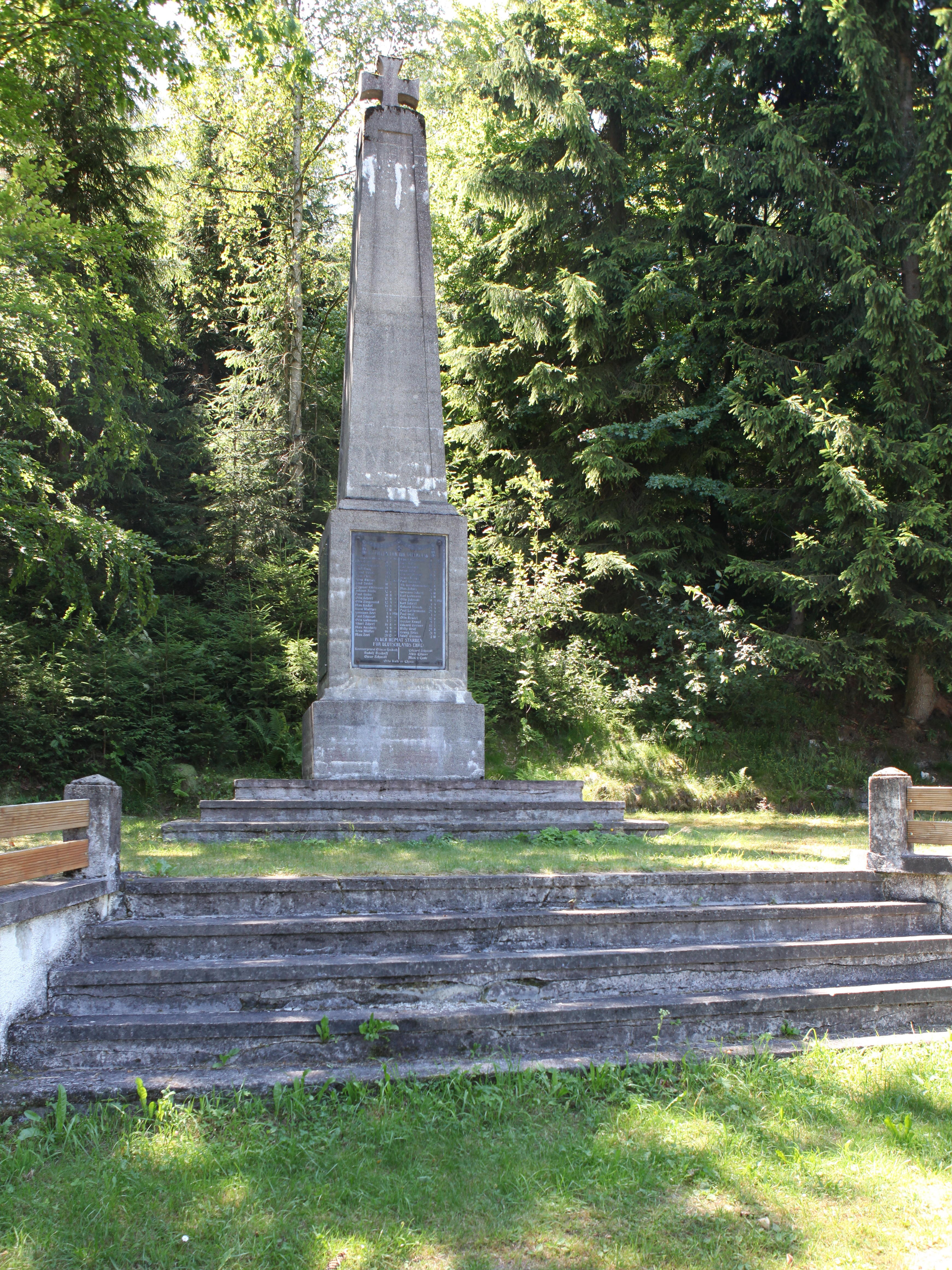 War memorial to Ascherbach, in the municipality of Lichte (municipal district: Oberlichte), Thuringia, Germany.